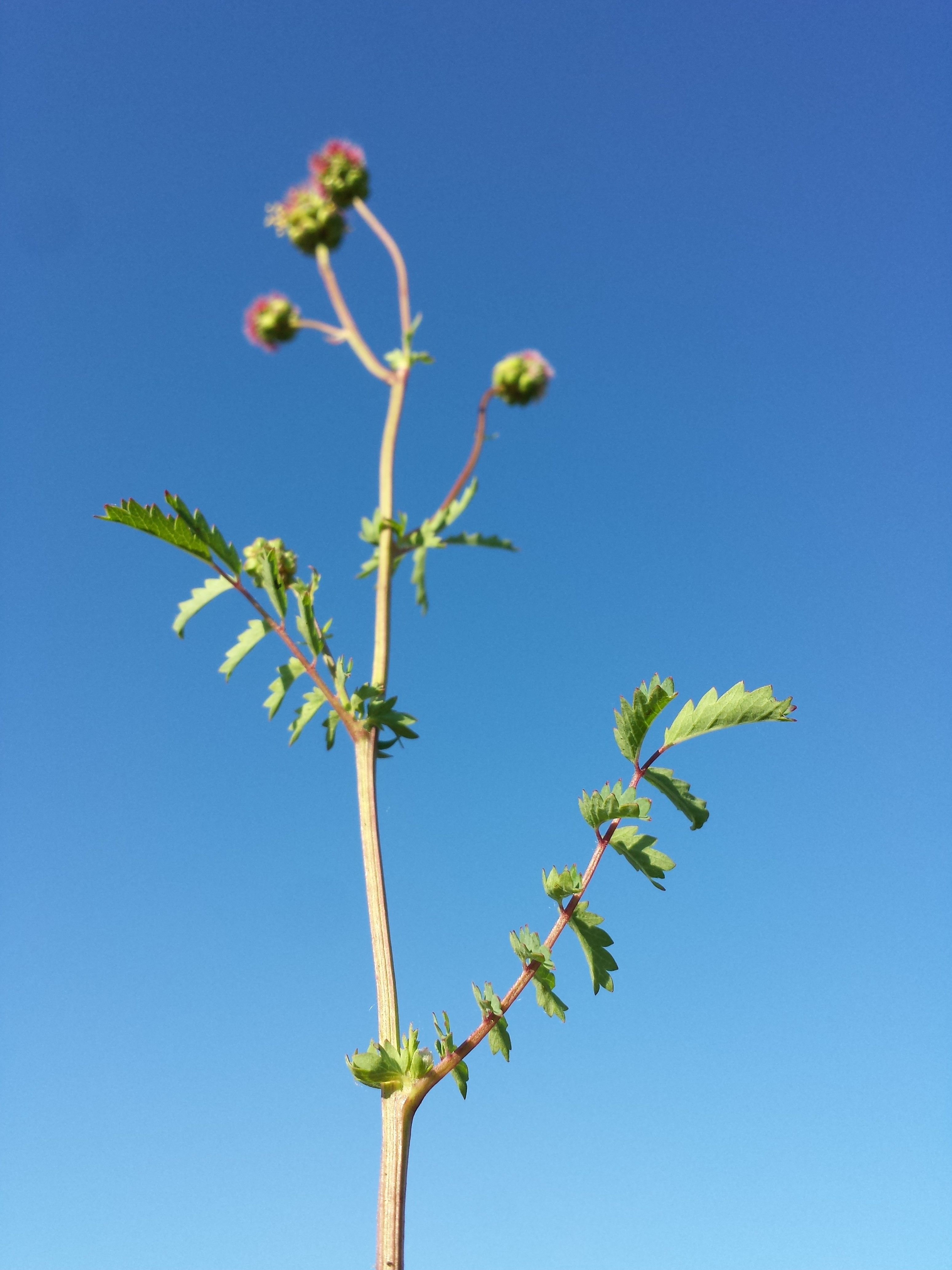 Stem with leaves Taxonym: Sanguisorba minor subsp. minor ss Fischer et al. EfÖLS 2008 ISBN 978-3-85474-187-9 Location: next to Strebersdorf, Floridsdorf, Vienna - ca. 160 m a.s.l. Habitat: fallow land